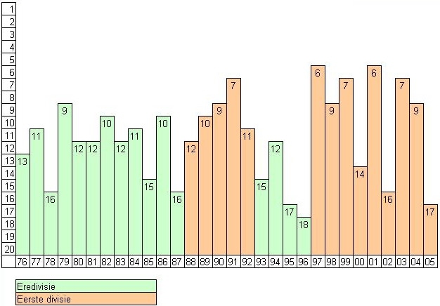 Dutch league positions of GAE, last 30 seasons